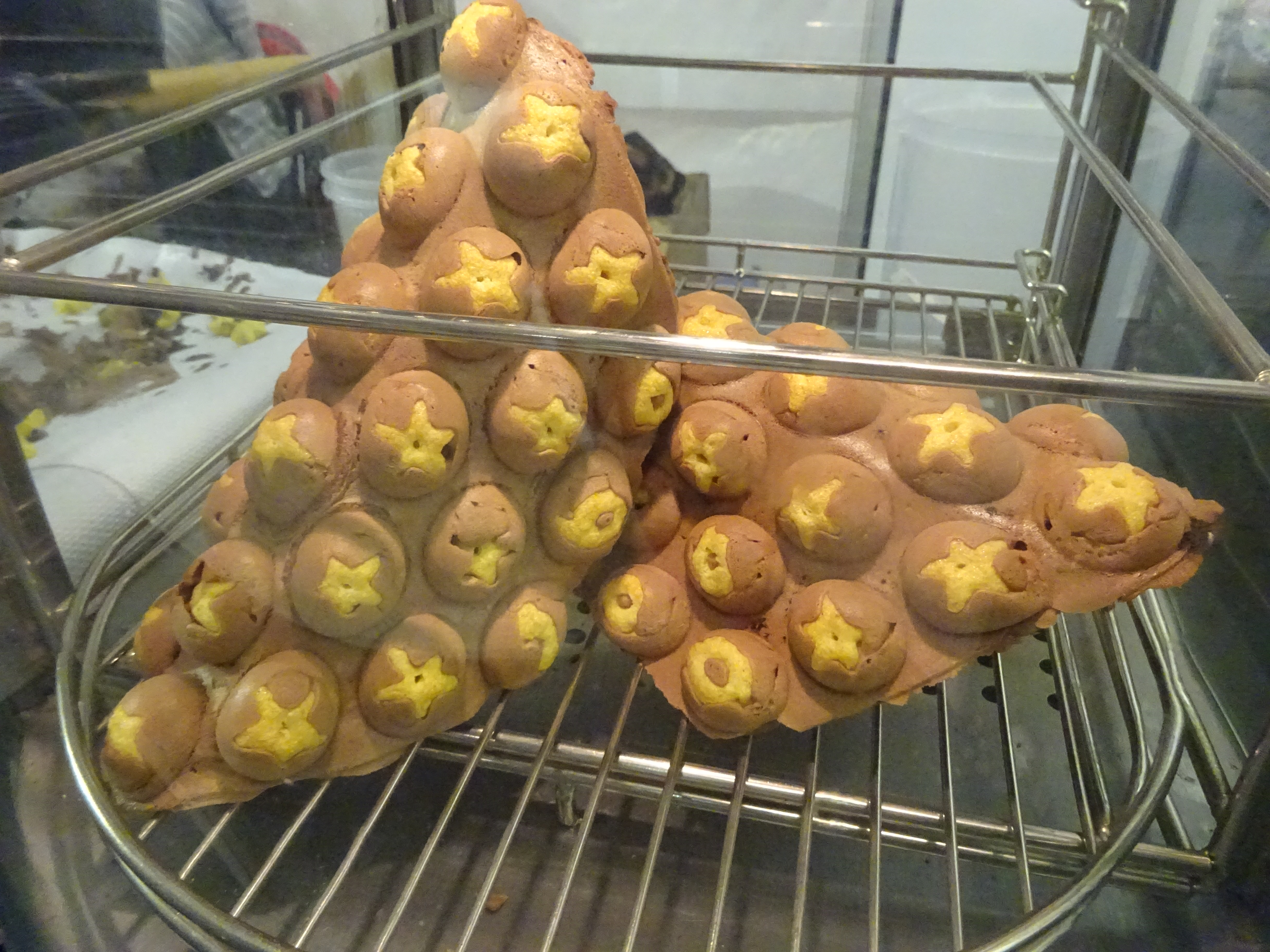 Courtyard food court of PMQ Mall, Aberdeen Street, Sheung Wan, Hong Kong